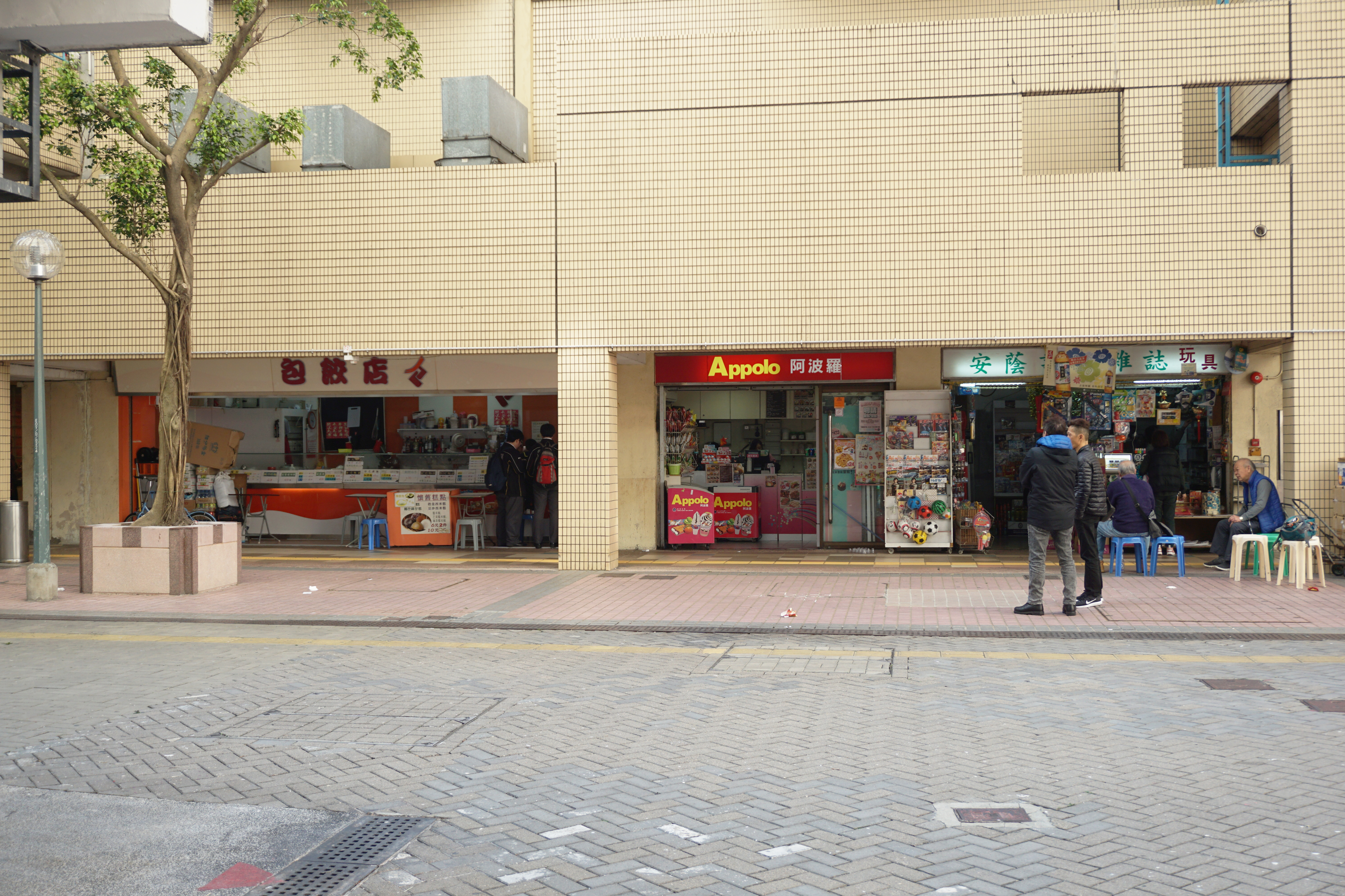 On Yam Shopping Centre in Shek Yam, Hong Kong.